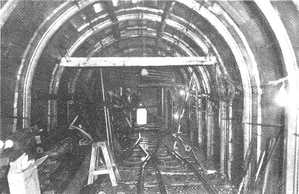 Service tunnel of Kammon railway tunnel